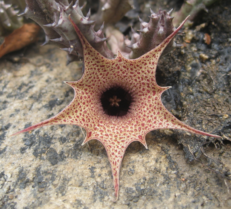 Flowering Huernia hislopii subsp. hislopii (family Asclepiadaceae) on granite rocks close to Chimoio, Mozambique.